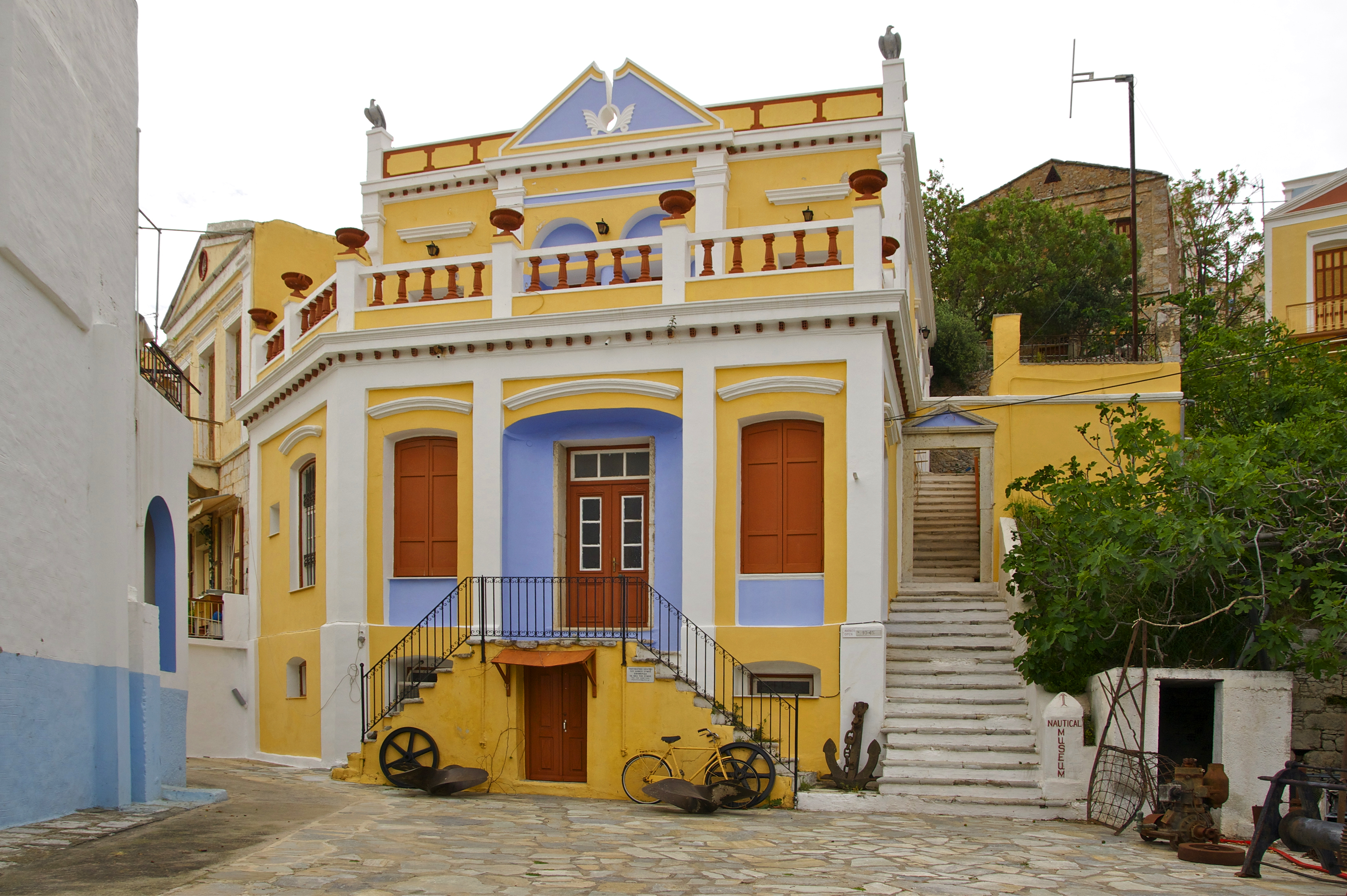 The Nautical Museum of Symi, Greece.